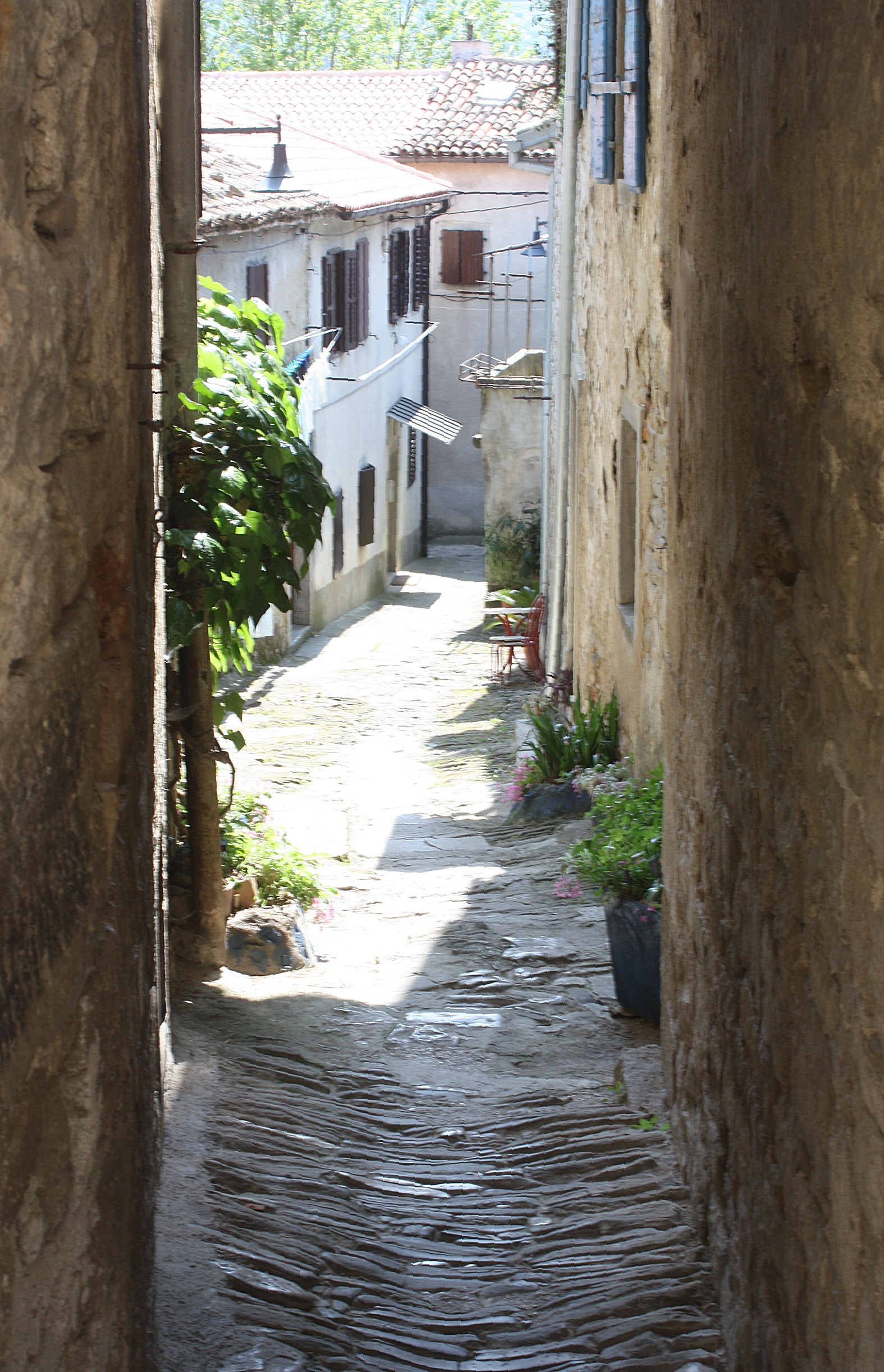 Buzet, a lane